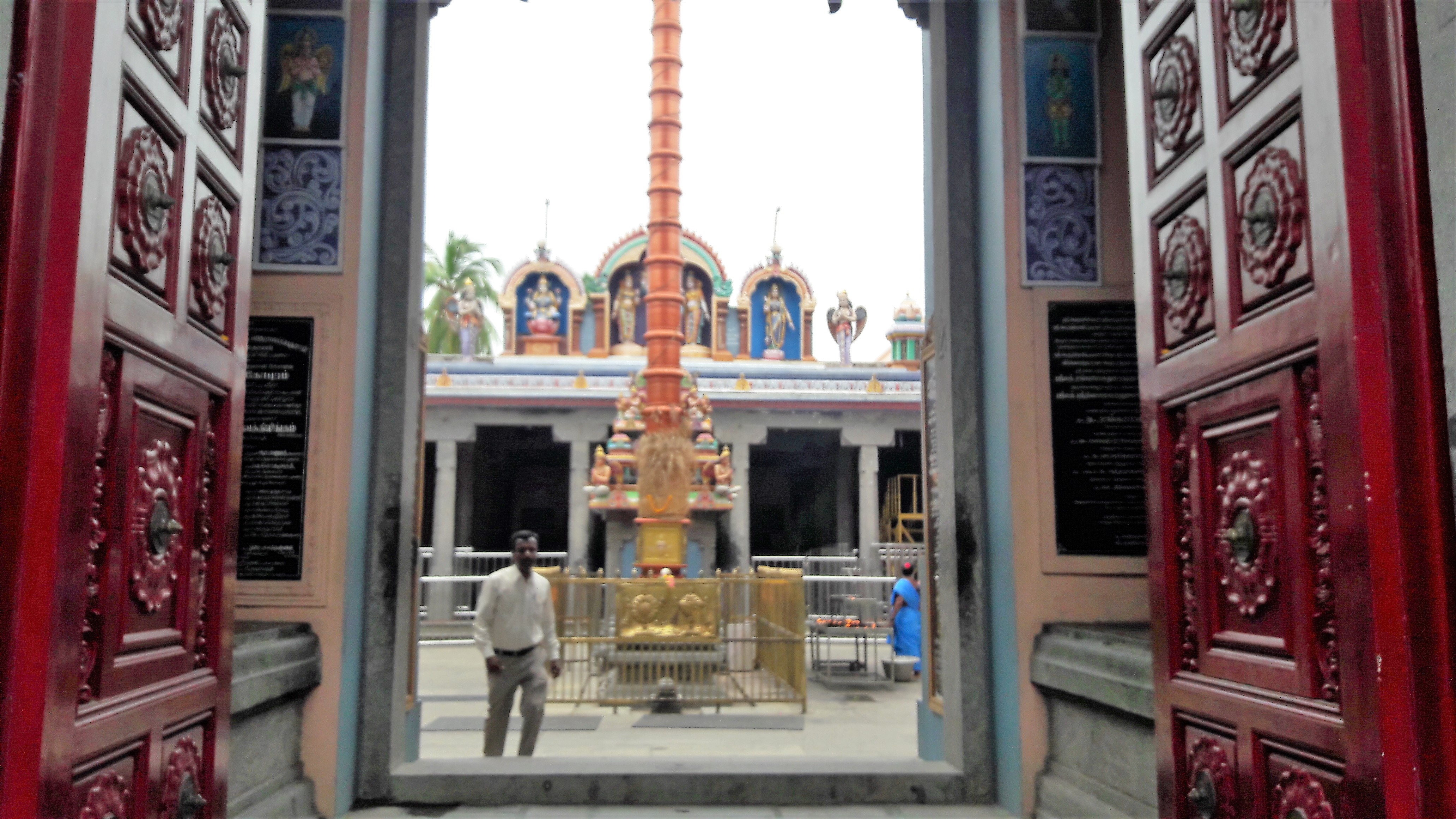 Varadaraja Perumal Temple, Pondicherry